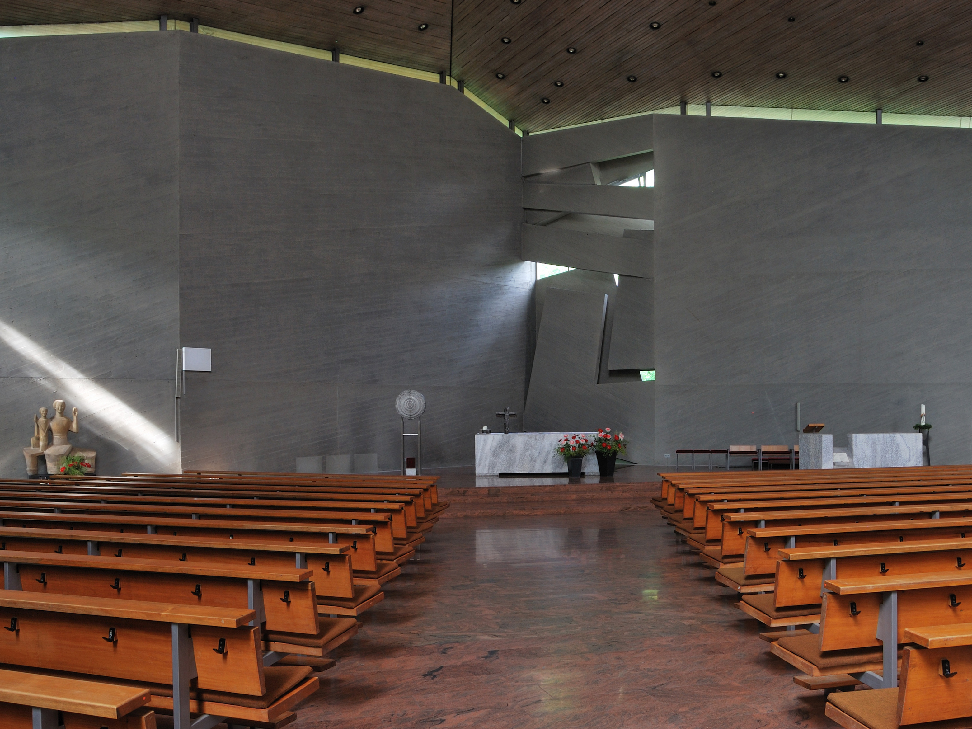 Inside the St. Maria, a catholic church of Ditzingen in Germany.